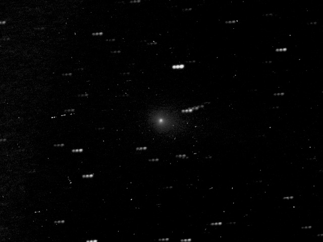 Comet 22P/Kopff imaged with 0.41-m Ritchey-Chrétien reflector + CCD remotely at Tzec Maun observatory (near Mayhill, NM, U.S.A.) The stars are trailed since this image is a set of stacked images that track the movement of the comet. sum 14x60 sec, 1.5"/pix (Gaussian intensity scale)